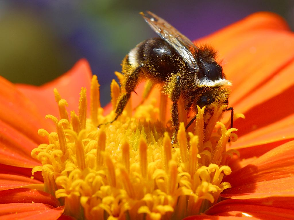 Some bumblebee (Bombus spec.)